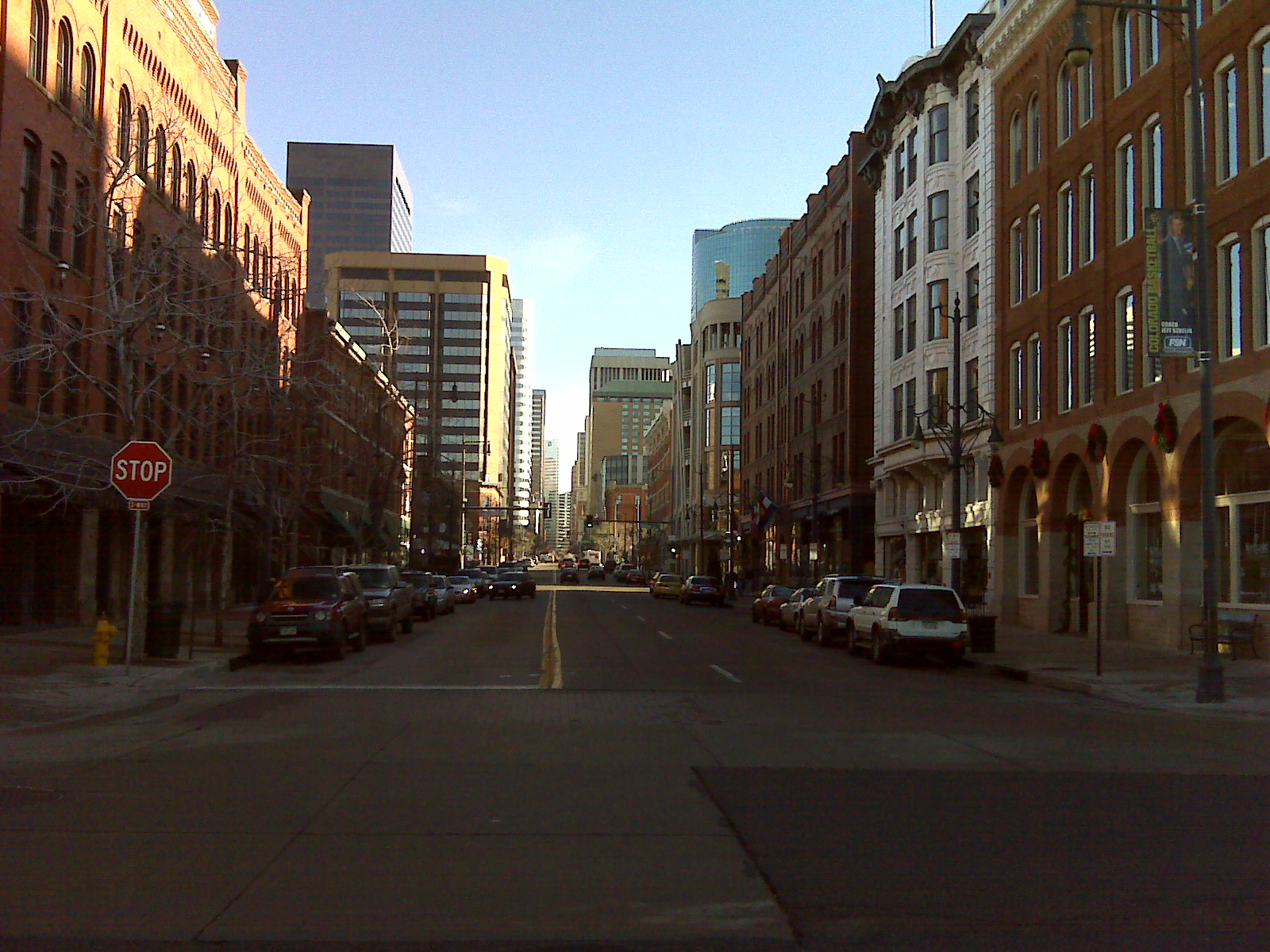 Looking down the length of 17th Street from Wynkoop (Union Station) to Broadway in central Denver, Colorado, United States. About 1 mile to the end of the picture.